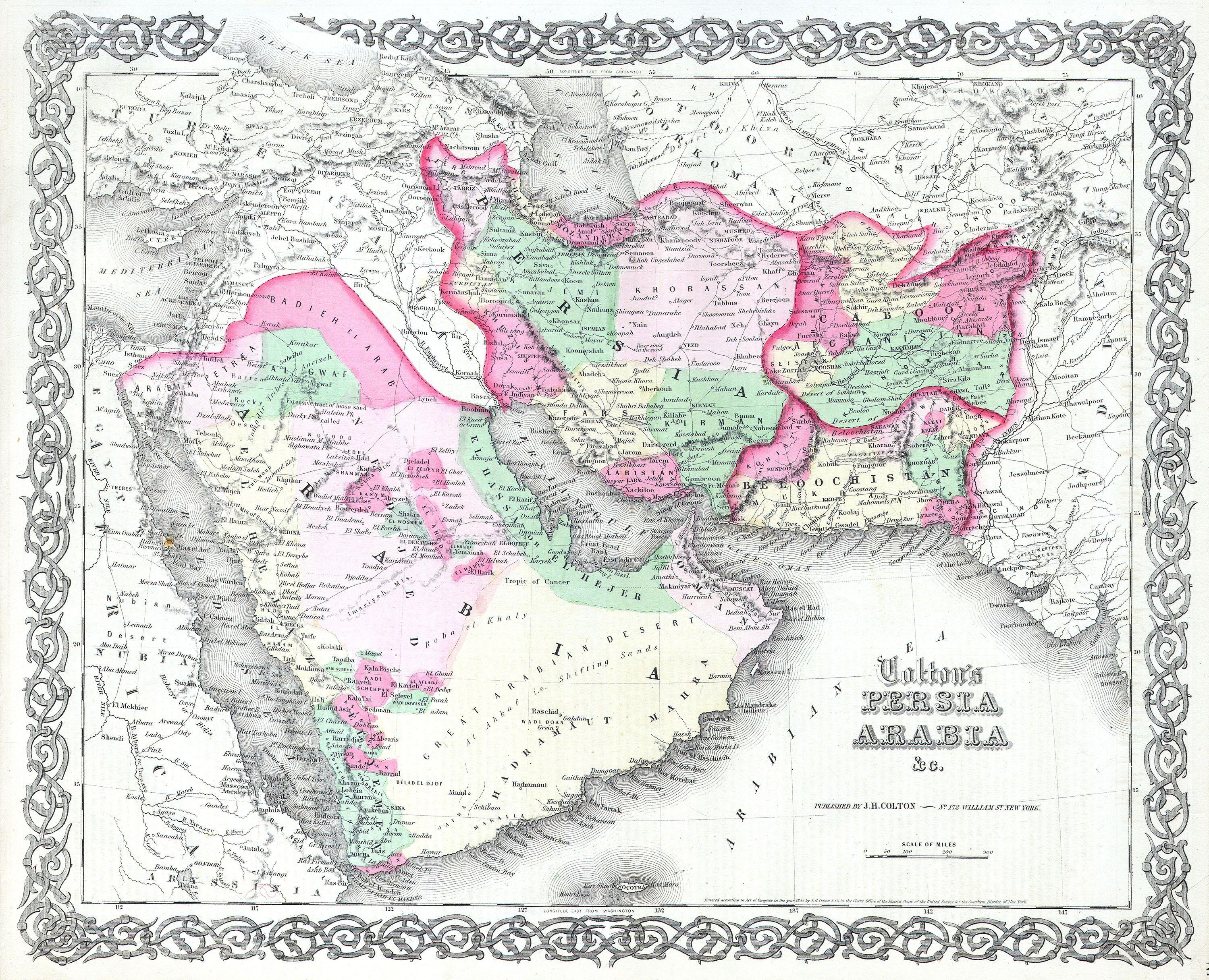 Map of Persia and Arabia from J. H. Colton’s 1855 Atlas of the World. Covers Afghanistan, Iran, Iraq, Jordan, and the Arabian peninsula ( Saudi Arabia, Yemen, Kuwait, United Arab Emirates, and Oman). Map is a lithograph from a steel plate engraving. Details desert trading routes, oases, trading centers, etc. Beautiful hand color.